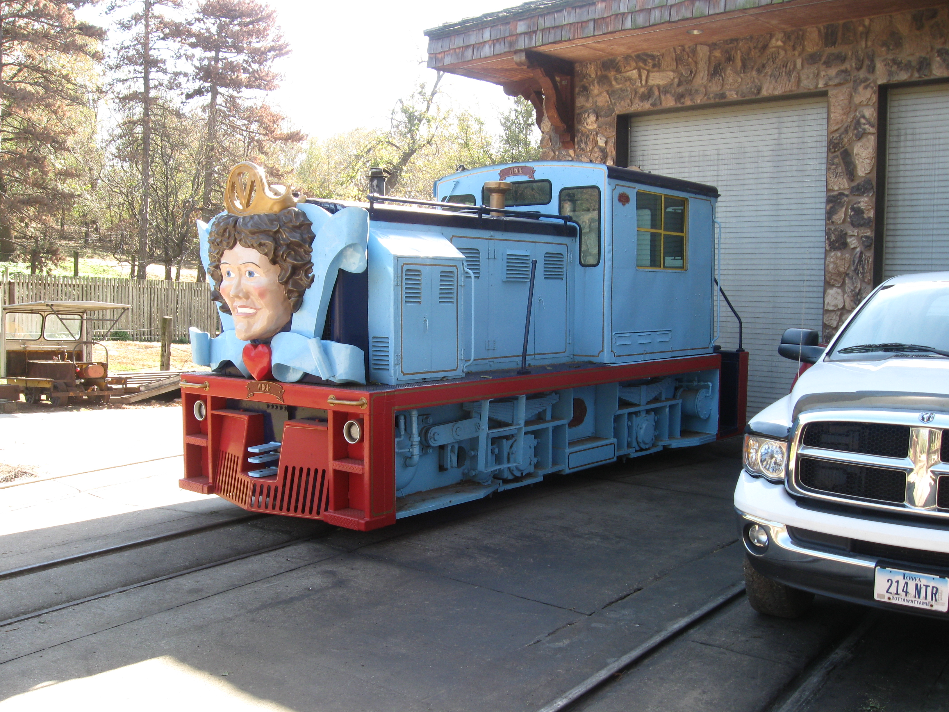 photo of "Virgie" locomotive at Henry Doorly Zoo, Omaha NE